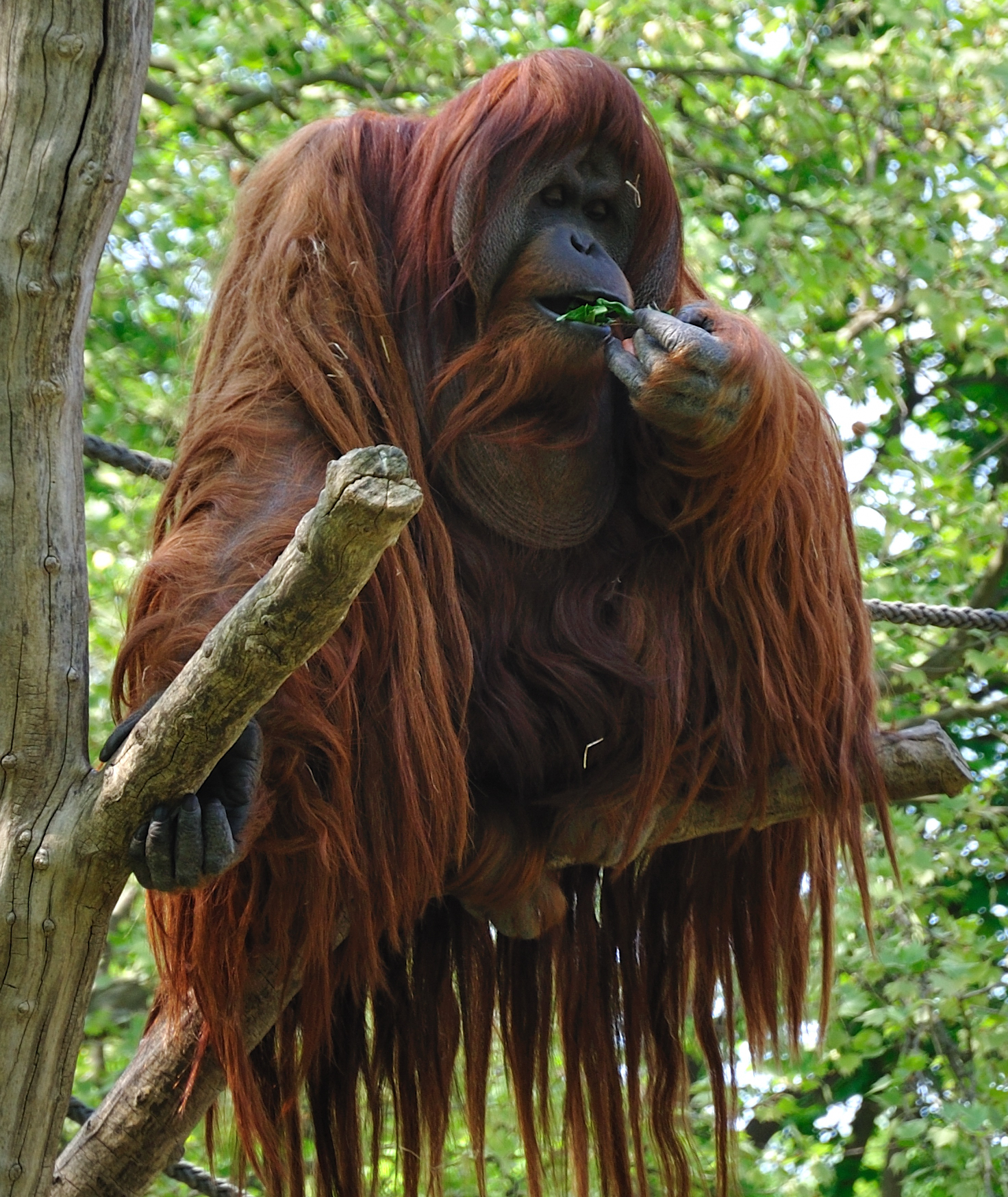 Orangutan at Berlin Zoo, Germany.